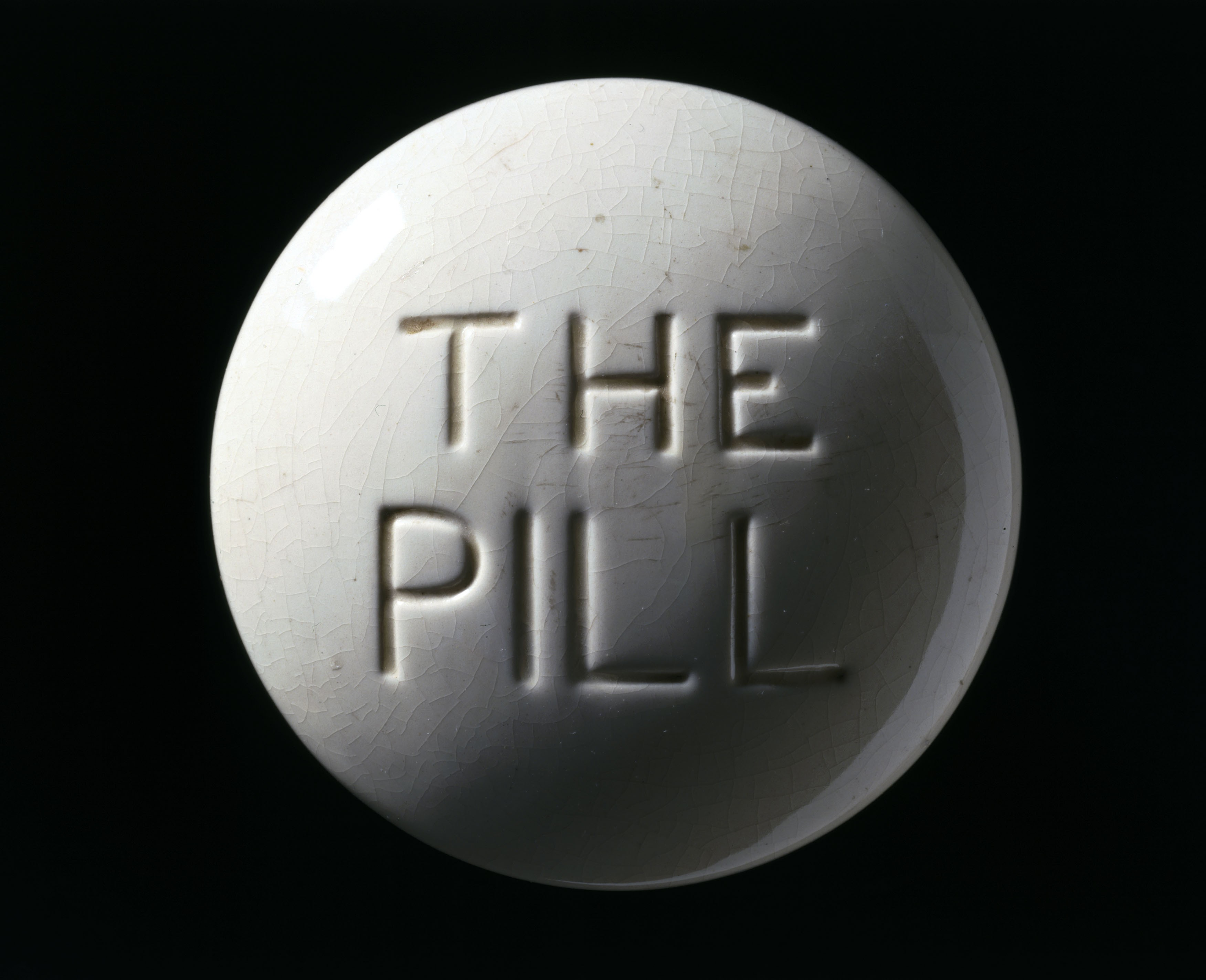 Birth control was still a taboo subject before the 1960s. "The pill" seemed an ideal contraceptive because it was effective, not messy, and did not interfere with sex. The oral contraceptive pill also empowered women to take greater control of contraception. However, the first pills had a far higher level of hormones than required. This caused heart problems in some women. Later pills rectified this. "The pill"; is still prescribed worldwide. maker: Unknown maker Place made: Europe Wellcome Images Keywords: Hormones; hormone; Contraception; model - representation; oral contraceptive pill